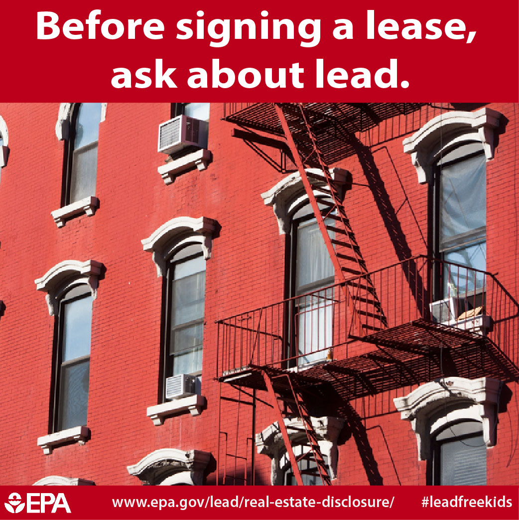 Infographic, "Before signing a lease, ask about lead."